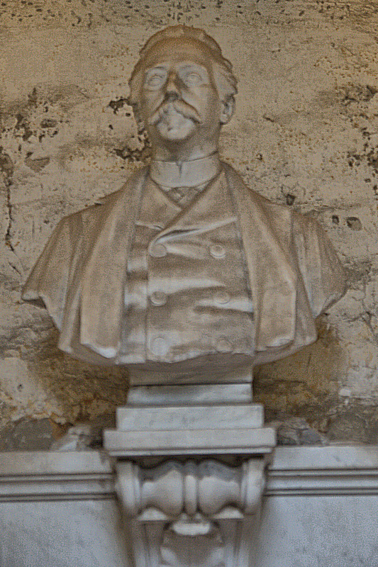 Bust dedicated to Vincenzo Petrali, organist and composer